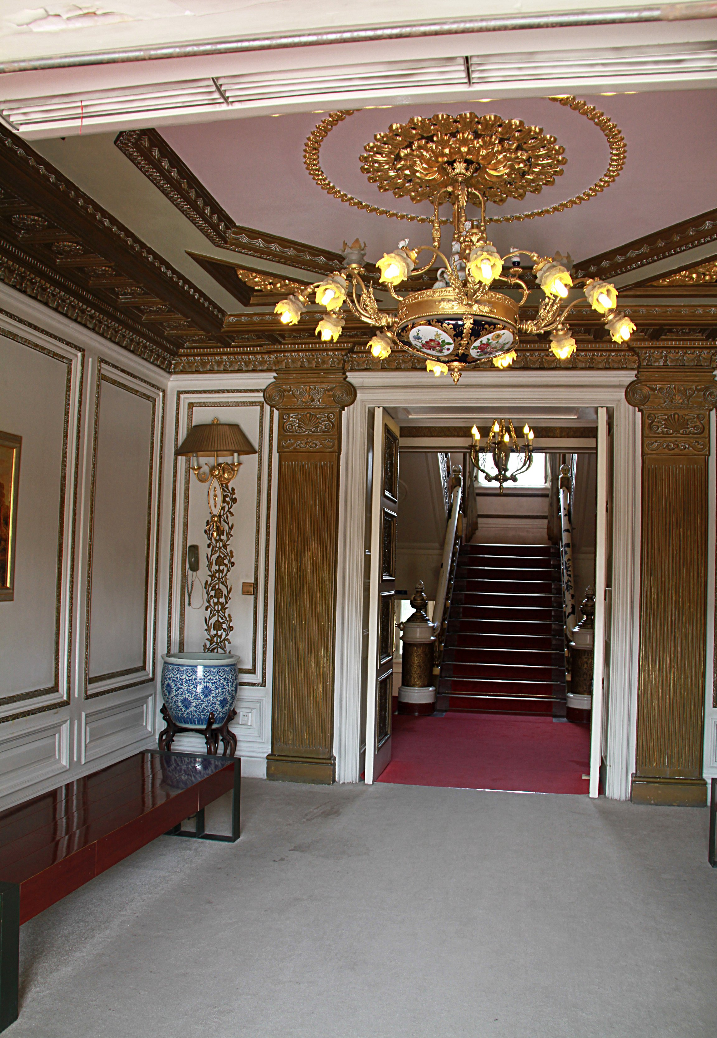 Photograph of the foyer of the Jixi Building in the Museum of the Imperial Palace of the Manchu State, Changchun, Jilin province, northeast China.